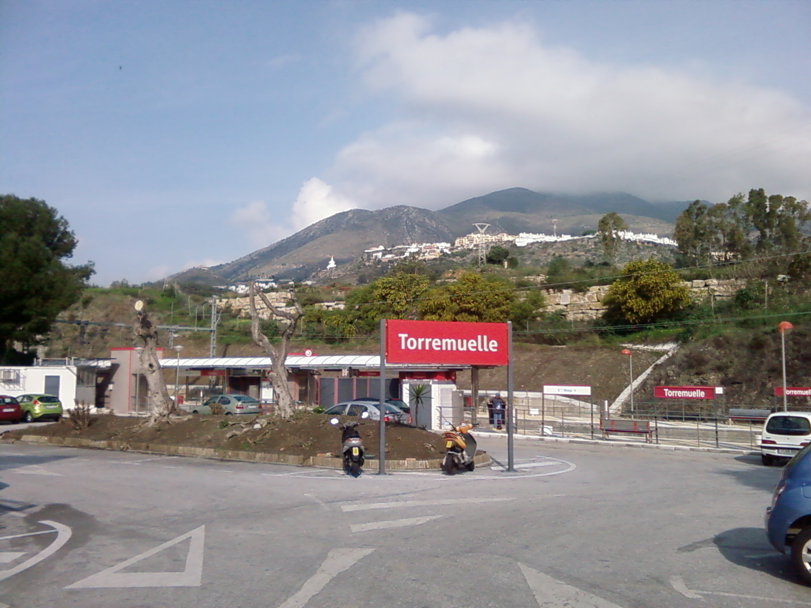 Torremuelle commuter rail station, C1 line Cercanías Málaga, Spain